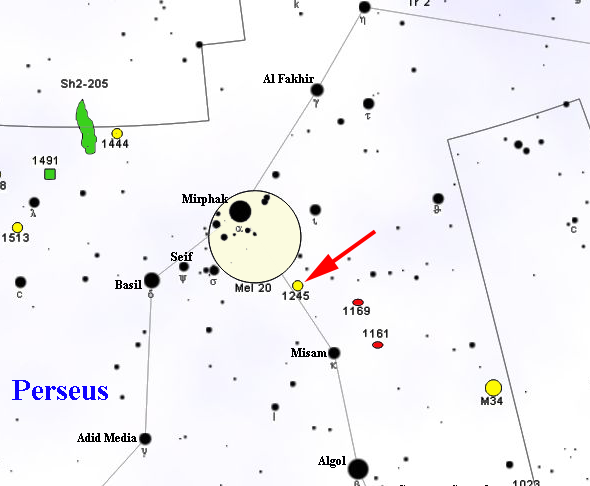 Map of NGC 1245